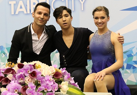 Marjorie Lajoie, Zachary Lagha, Romain Haguenauer - 2017 Junior Worlds